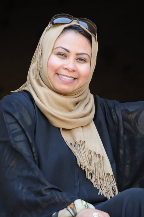 photo for writer halema Muzaffar